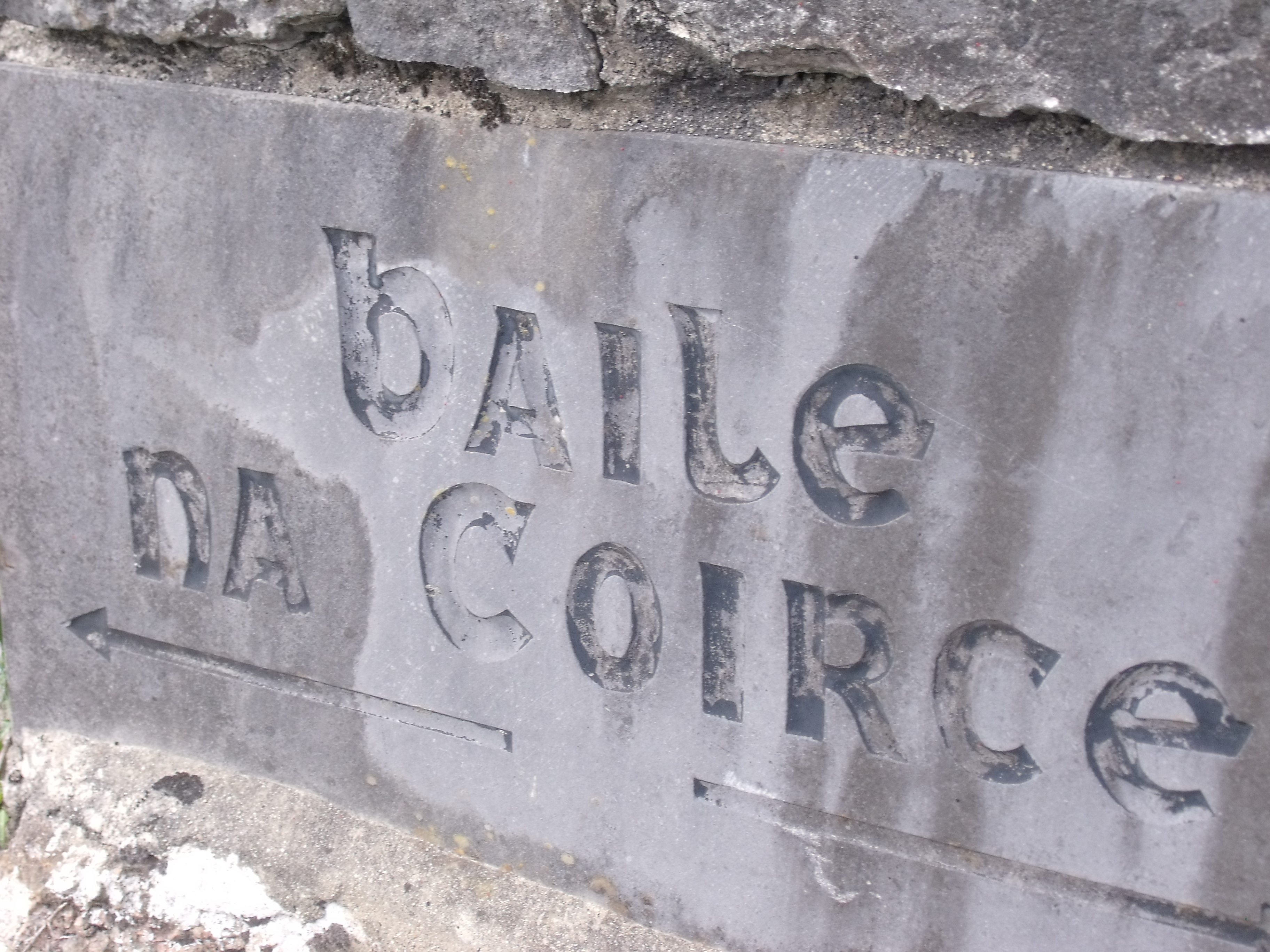 Sign in Ballycuirke, Moycullen, Co Galway, Ireland.